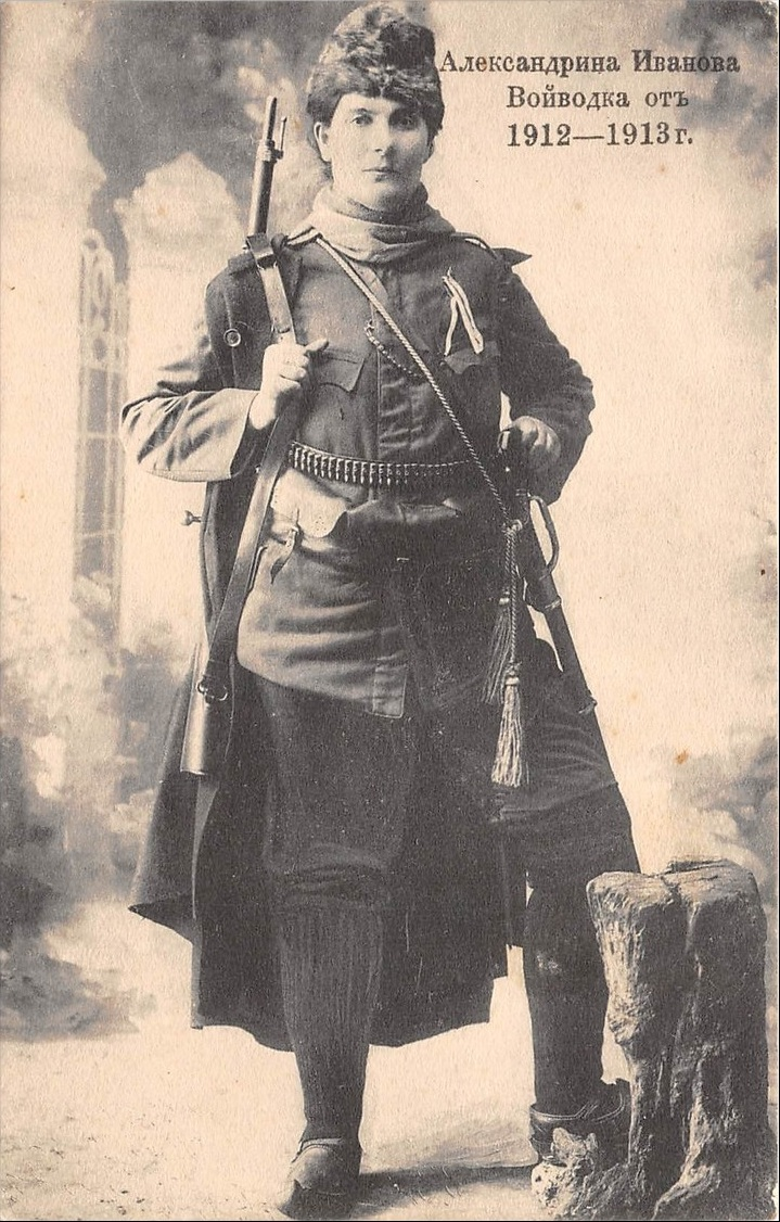 Alexandrina Ivanova Postcard